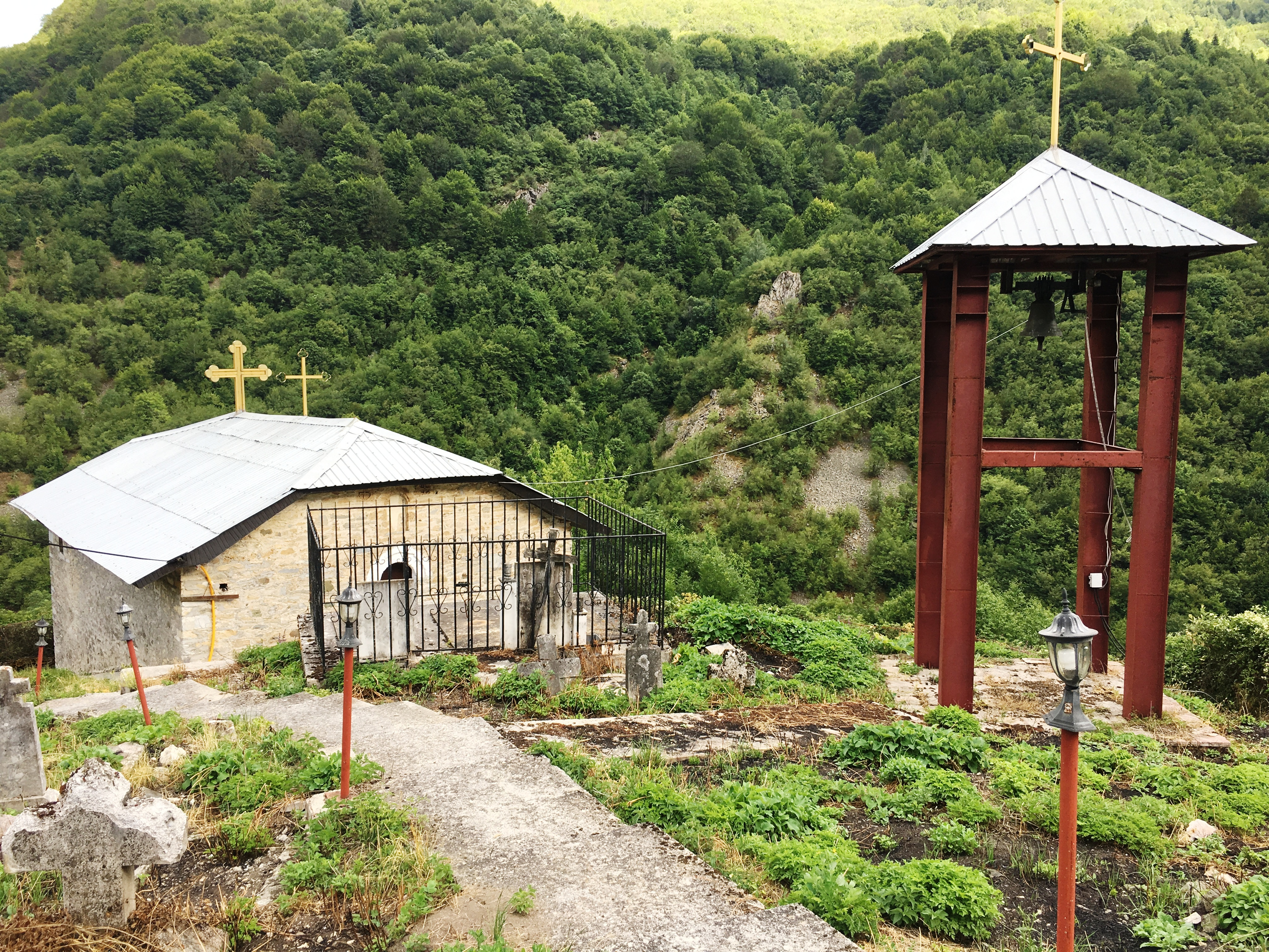 St. Athanasius Church in the village of Ničpur